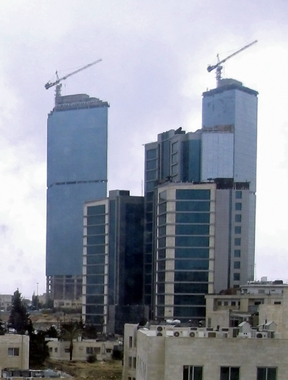 A cropped photo of the Jordan Gate towers